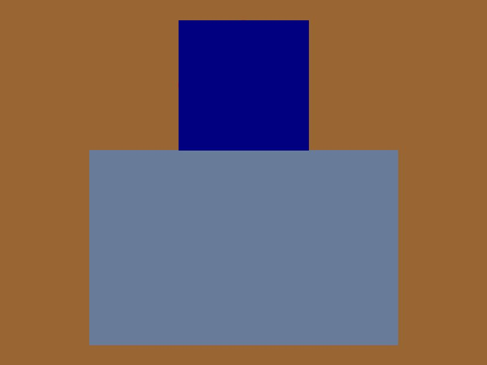 The 3rd Canadian Division distinguishing patch of the 116th and 60th Battalions, CEF.